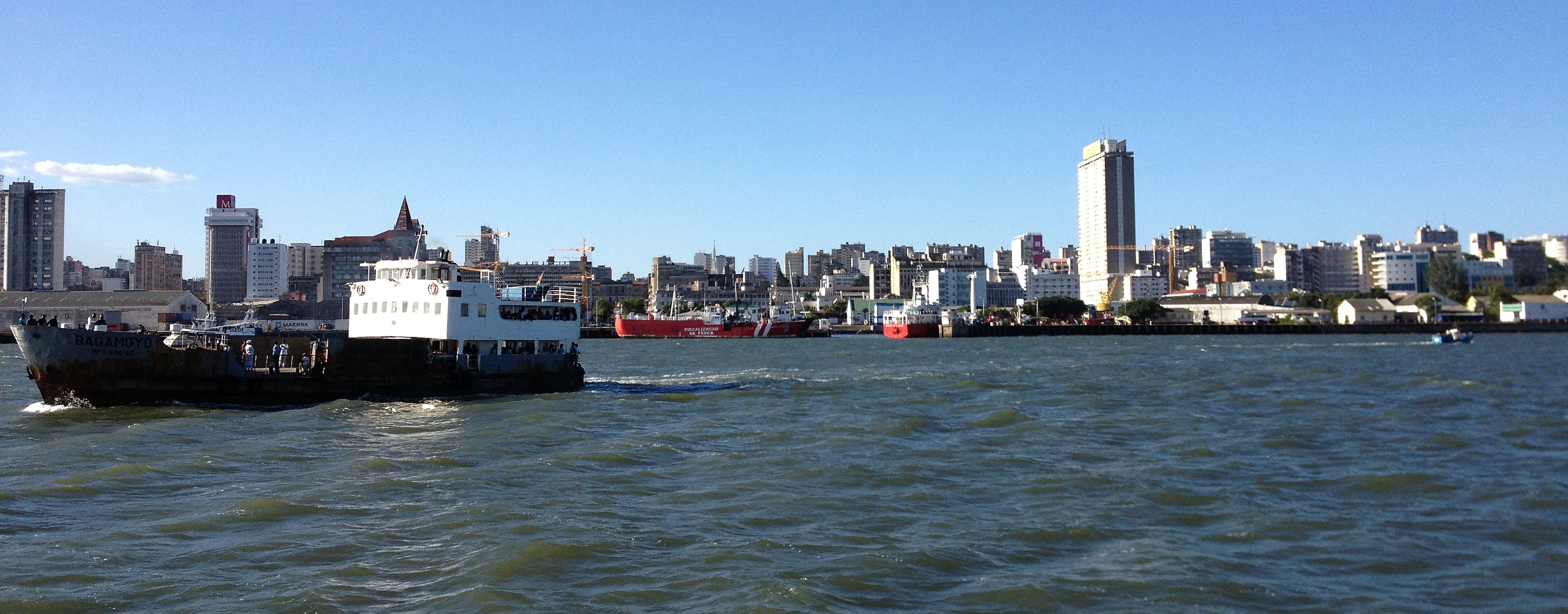 View of Maputo, Mozambique